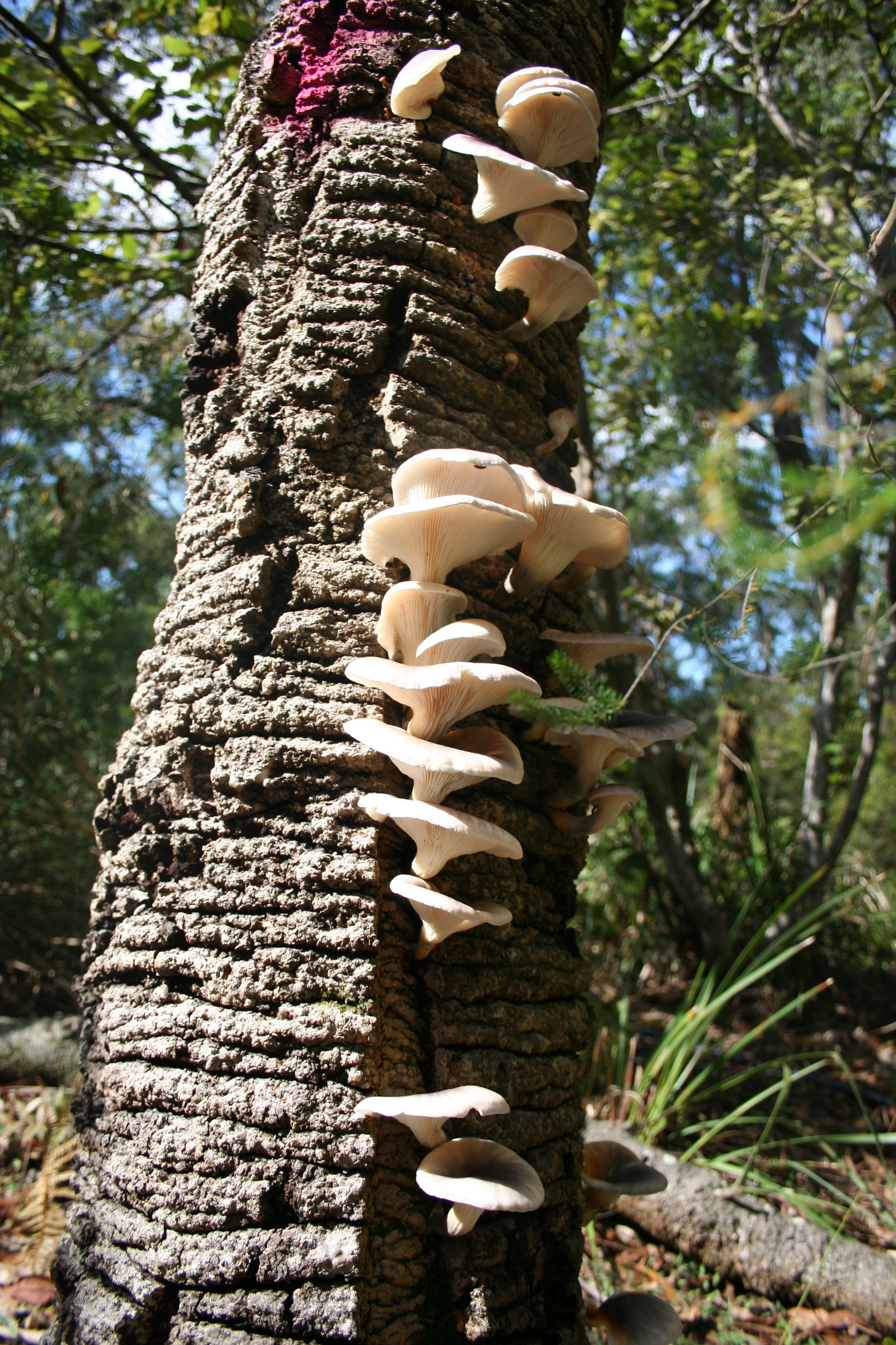 Omphalotus nidiformis on dead stump of Banksia serrata, Sylvan Grove native garden, Picnic Pt NSW